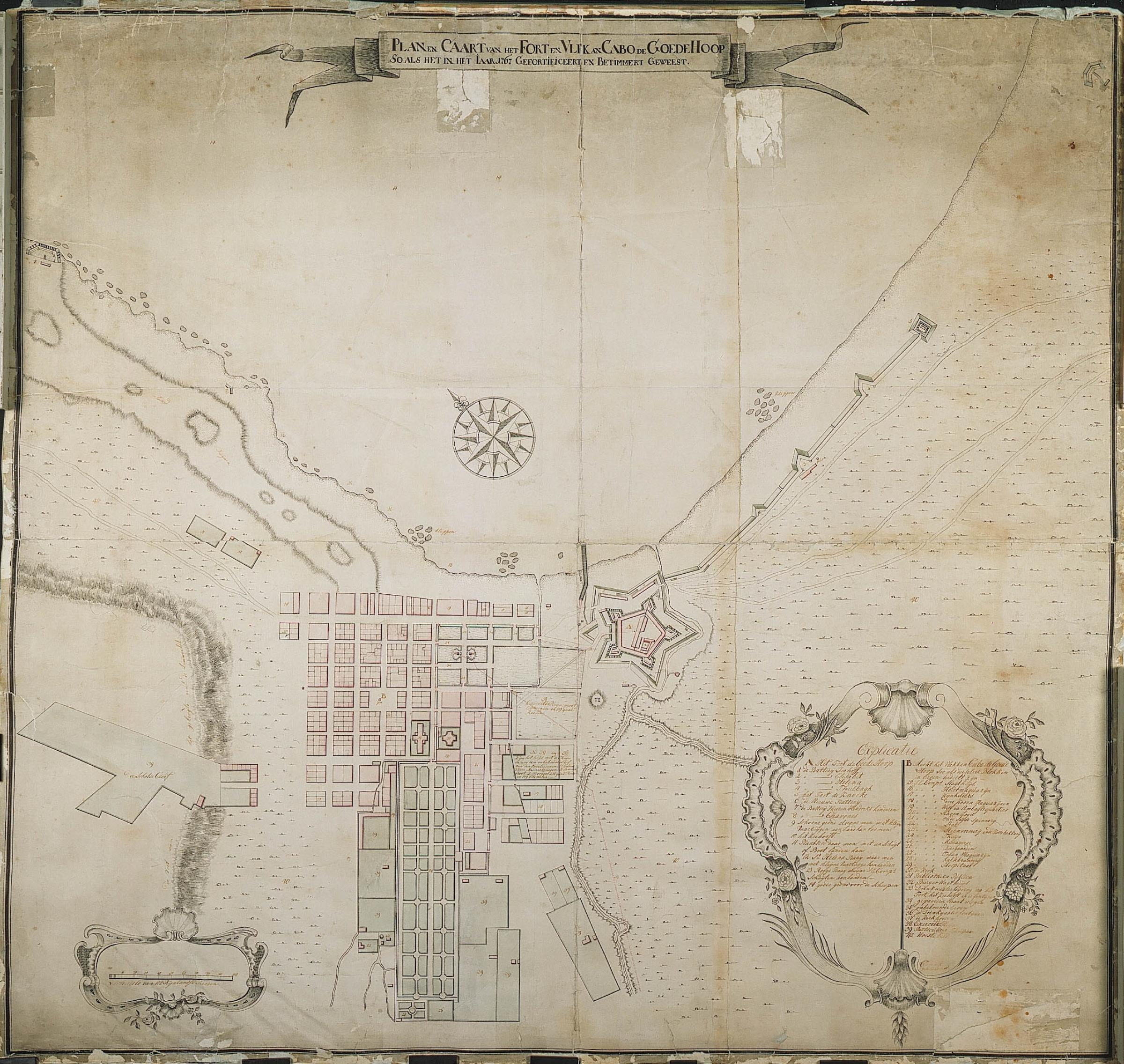 The original title according to the Leupe catalogue (NA) reads: Plan en Caart van het Fort en Vlek an Cabo de Goede Hoop, so als het in het jaar 1767 [is] gefortificeert en betimmert geweest. Key: A 1-14; B 15-40 Topographical names mentioned are: Batterij Imhoff, Batterij Elisabeth, Batterij Helena, Batterij Thulbagh, Fort de Knocke, de Nieuwe Batterij, Batterij Chavonnes.